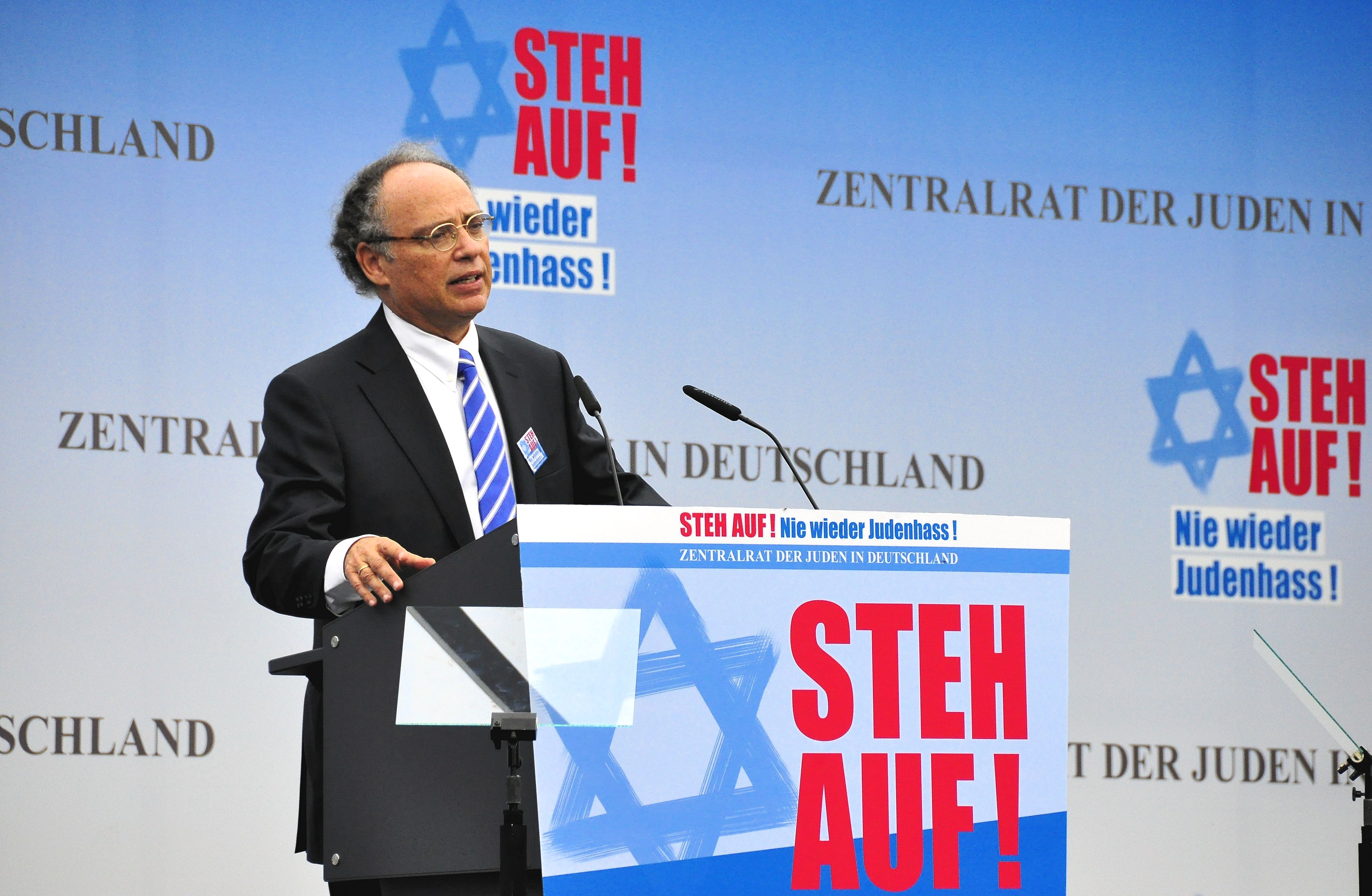 Dieter Graumann, president of the Central Council of Jews in Germany, addressing a rally against anti-Semitism, Berlin, 14 September 2014